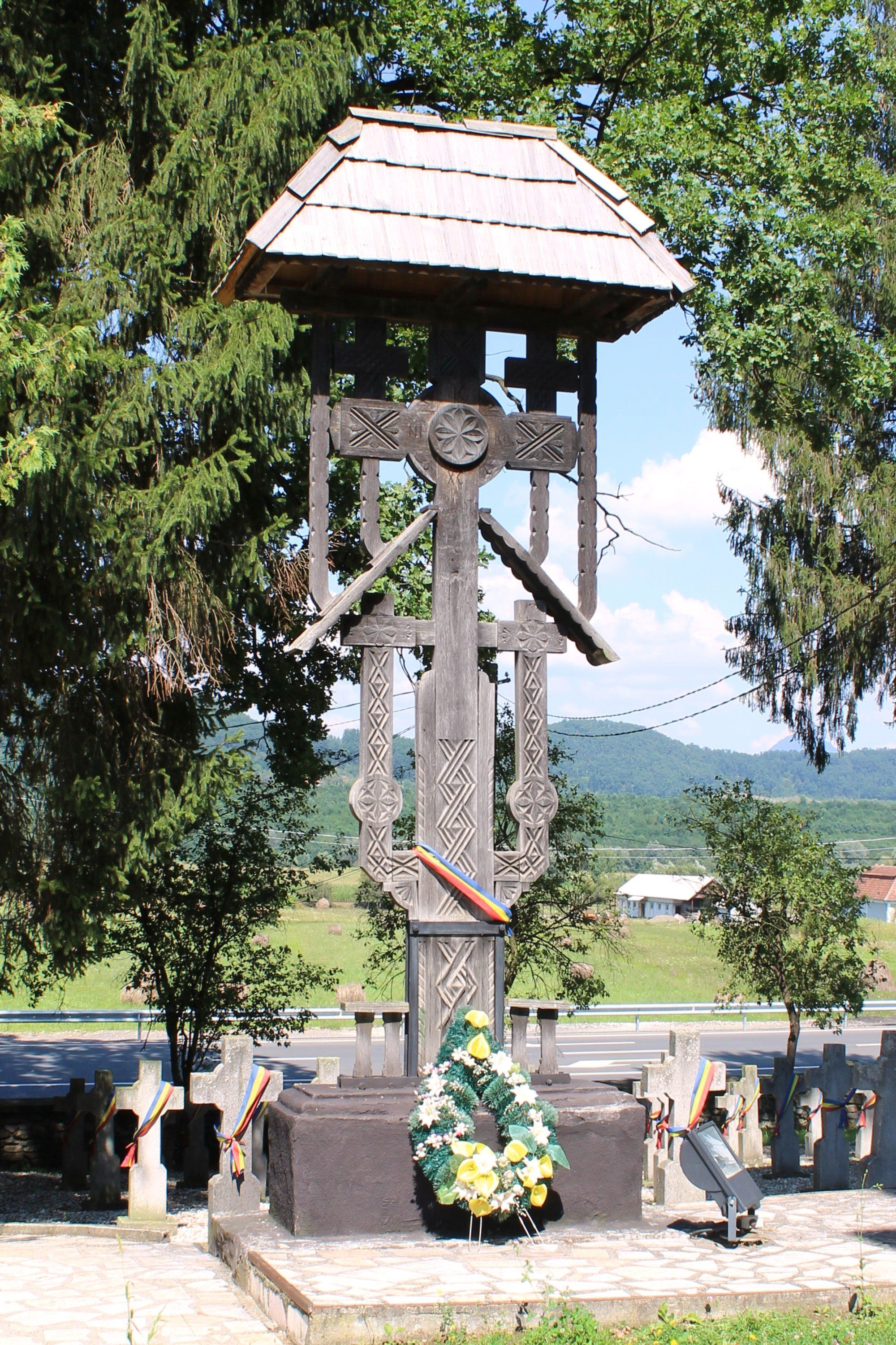 Trinity of George Camber, Țebea, Hunedoara, Romania